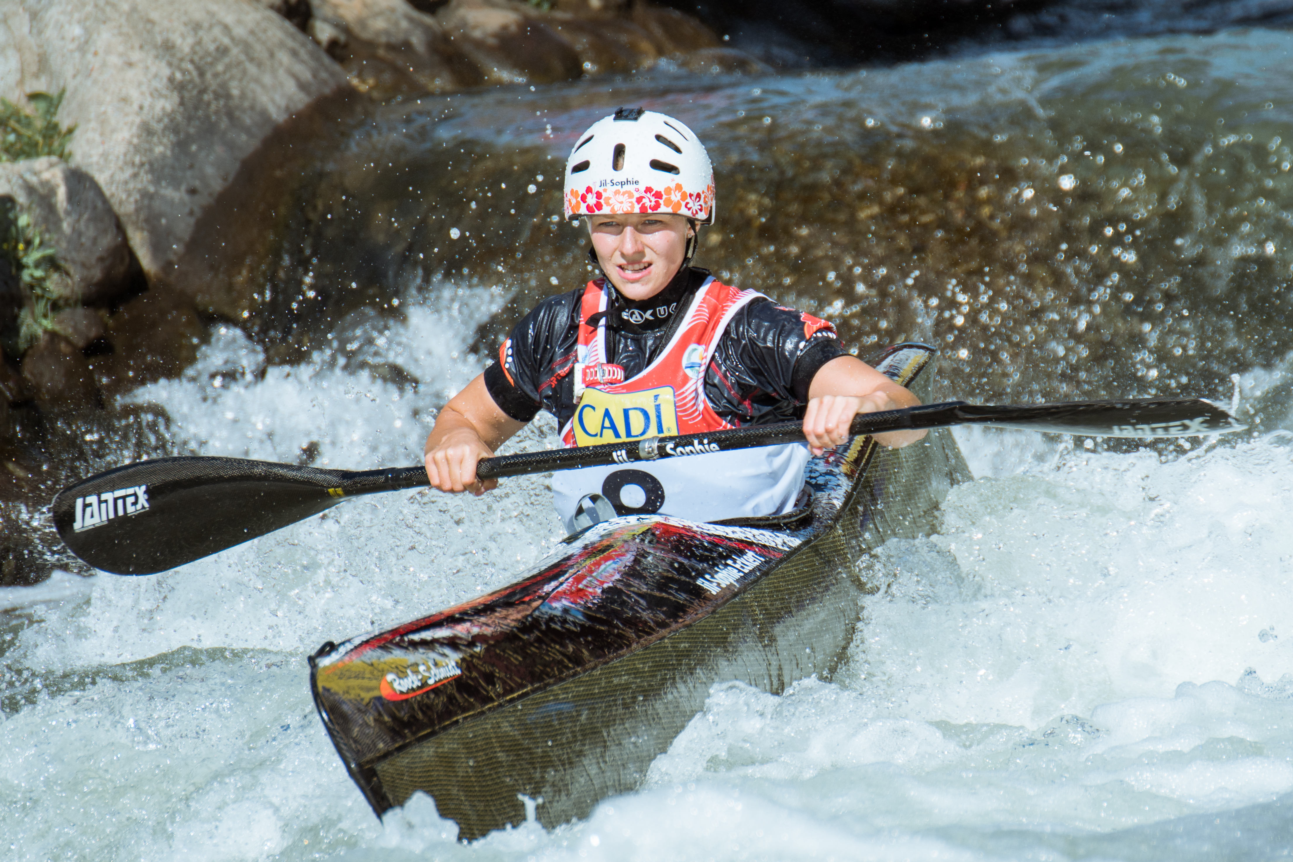 Jil-Sophie Eckert during the 2019 Canoe Wildwater World Championships in La Seu d'Urgell, Spain.